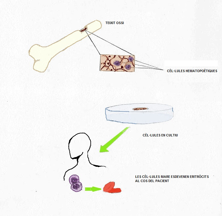 hematopoietic stem cell treatment